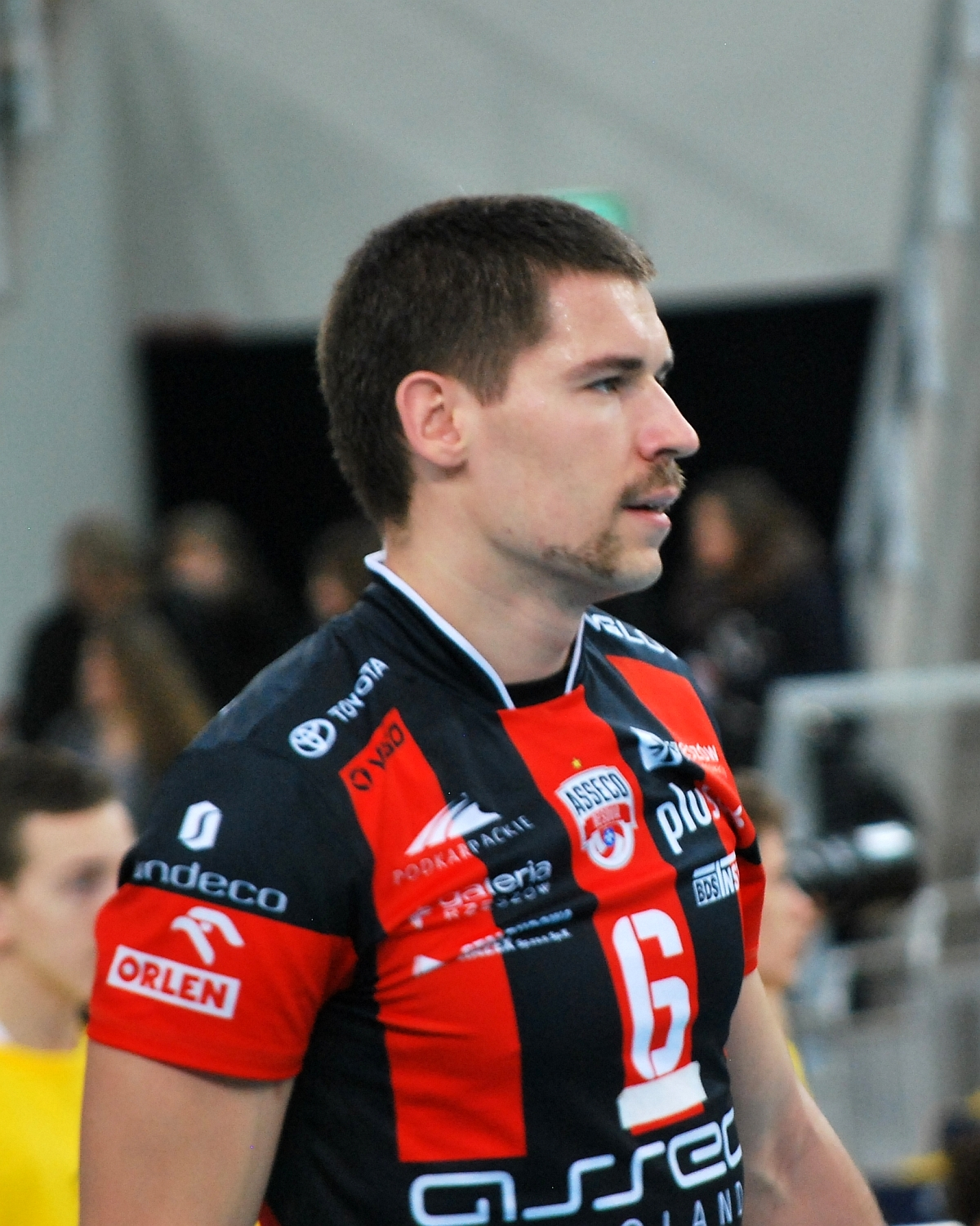 Dawid Konarski, volleyball player from Poland